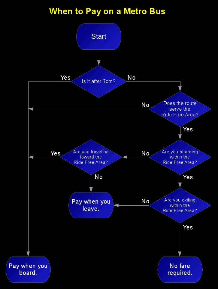 Flowchart that explains when to pay on a Metro bus.